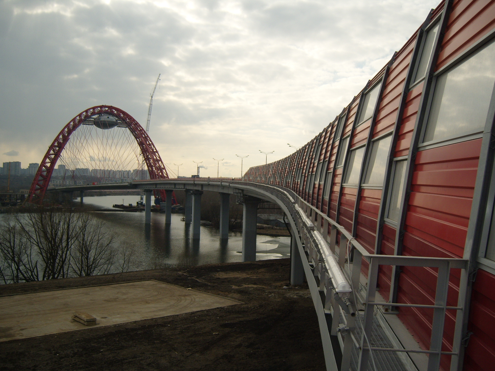 Zhiposny bridge near Pokrovskoe-Streshnevo, Moscow, 28.03.2008